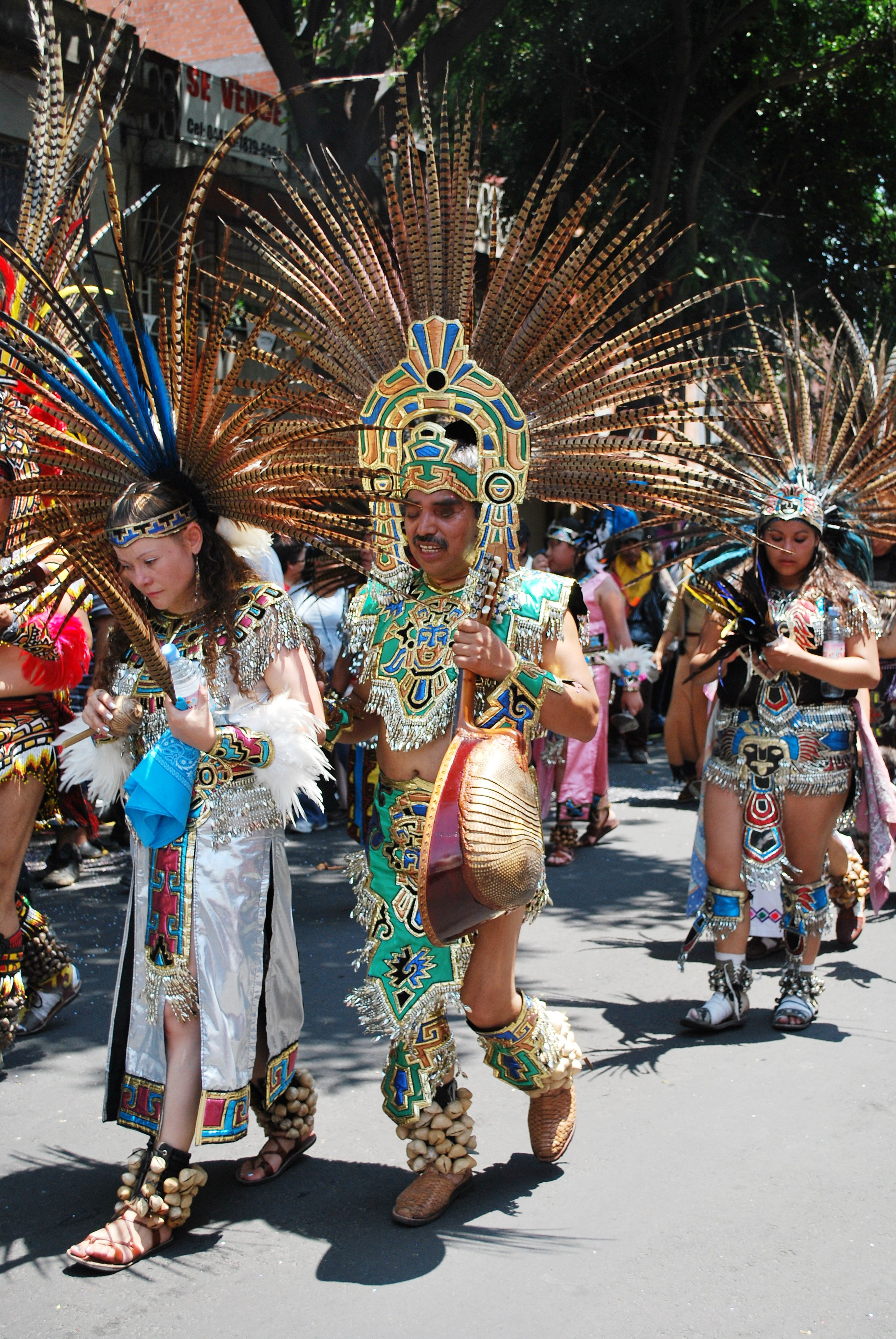 Aztec style dancers and musicians at the procession of the Feast of the Virgin of San Juan de los Lagos in Colonia Doctores, Mexico City